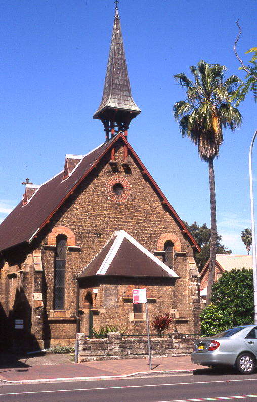 St John's Anglican Church, Broughton Street, Kirribilli, New South Wales, Sydney (Kodachrome slide scanned at low res, originally taken circa 1985)